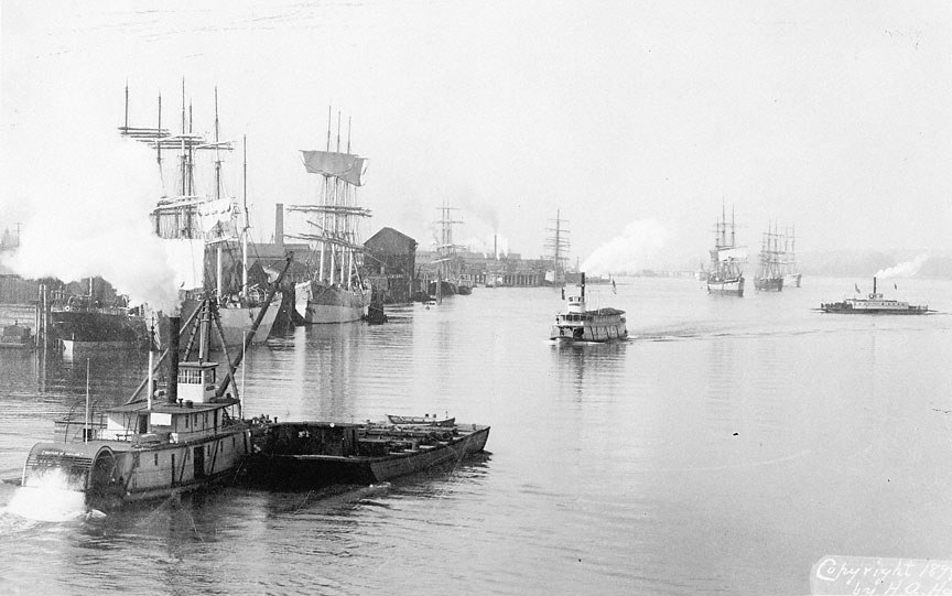 Harbor scene at Portland Oregon, circa 1899. From Oregon Historical Society